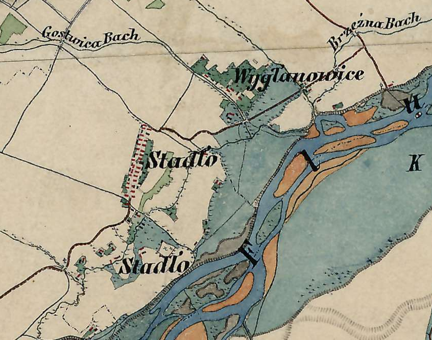 Stadło/Stadlau on an austrian map from around 1855